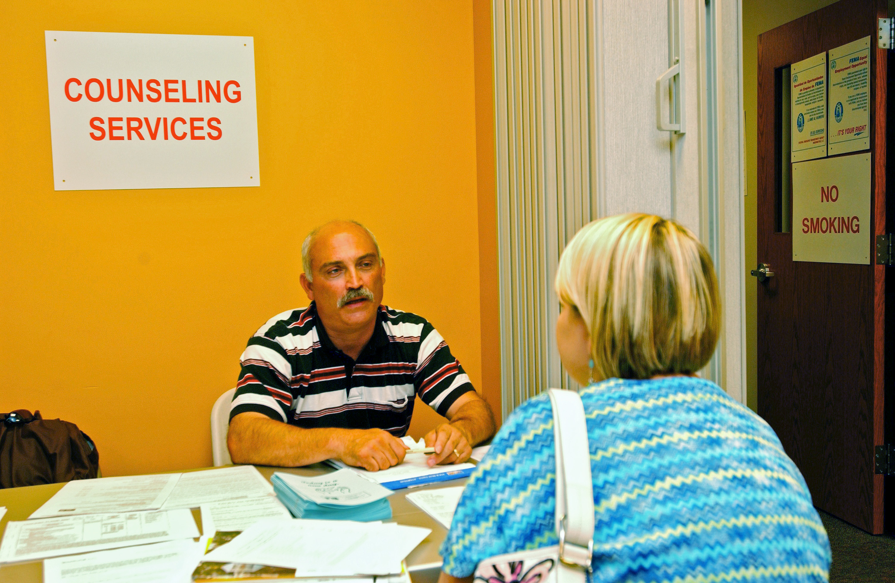 Findlay, Ohio, September 14, 2007 -- John Guagentei (L) with Century Health - a Mental Health organization in Findlay, talks with a woman whose home was damaged from flooding in the community. FEMA arranges for counseling desks at Disaster Recovery Centers (DRC) as part of assisting flood victims. John Ficara/FEMA